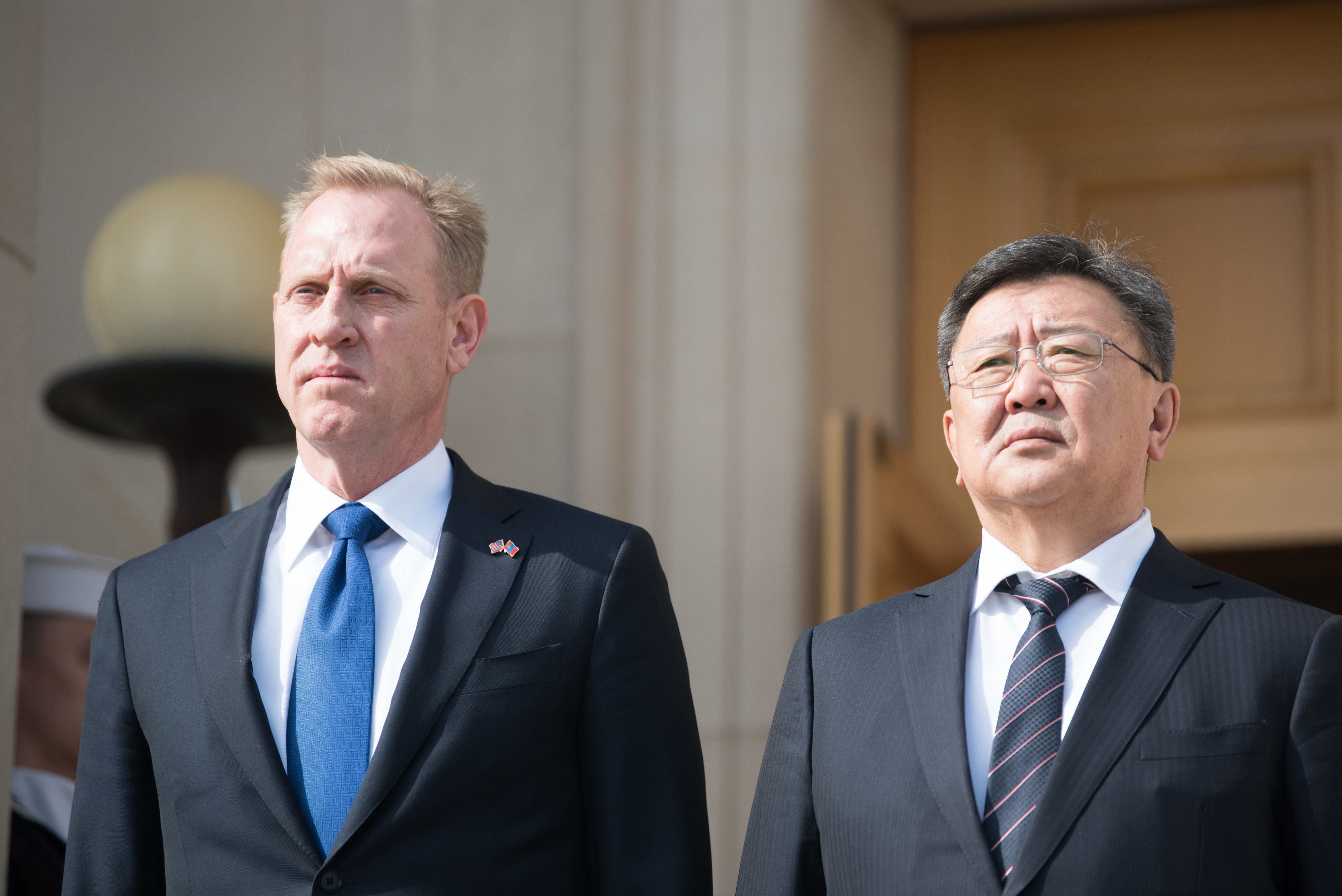 U.S. Acting Secretary of Defense Patrick M. Shanahan meets with the Minister of Defence for Mongolia Nyamaagiin Enkhbold at the Pentagon in Washington, D.C., April 2, 2019. (DoD photo by U.S. Army Sgt. Amber I. Smith)